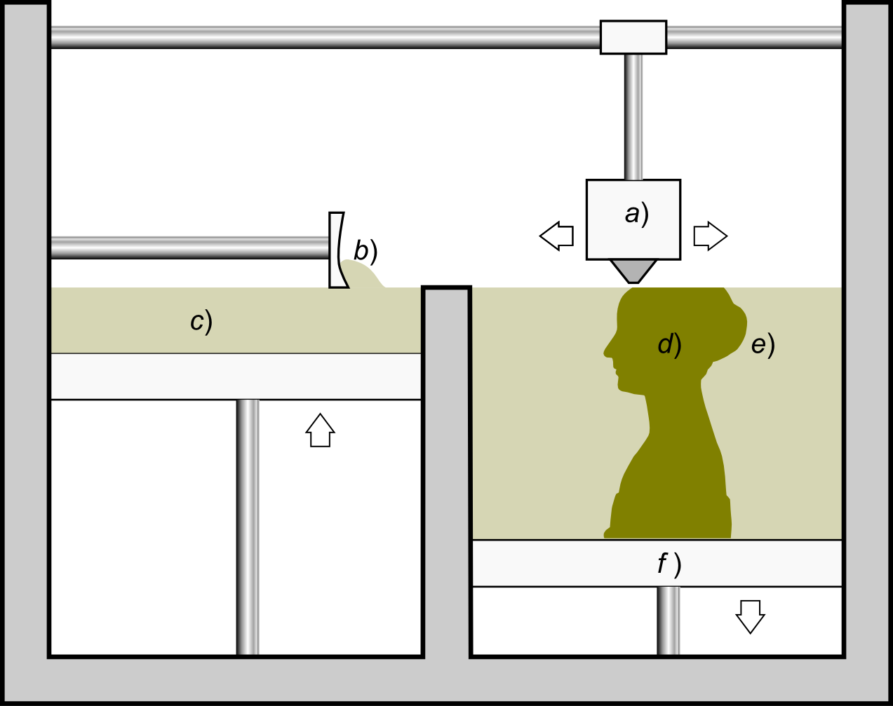 Schematic representation of the 3D printing technique known as granular binding; a moving head a) selectively binds (by dropping glue or by laser sintering) the surface of a powder bed e); a moving platform f) progressively lowers the bed and the solidified object d) rests inside the unbinded powder. New powder is continuously added to the bed from a powder reservoir c) by means of a leveling mechanism b).